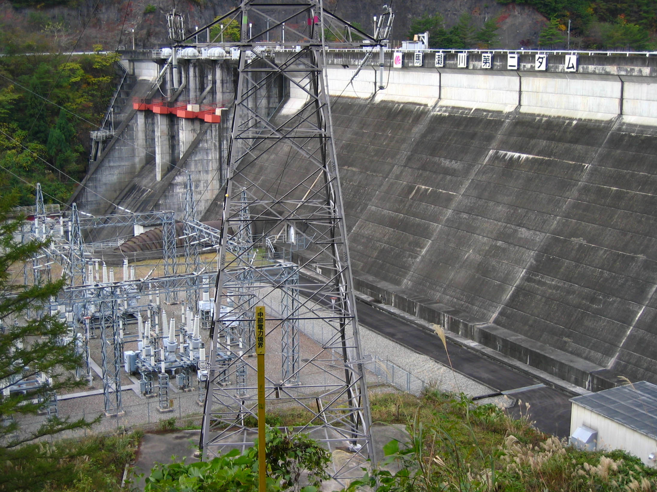 Mazegawa Dam number two (馬瀬川第二ダム) is a dam in Gero city, Gifu prefecture, Japan.